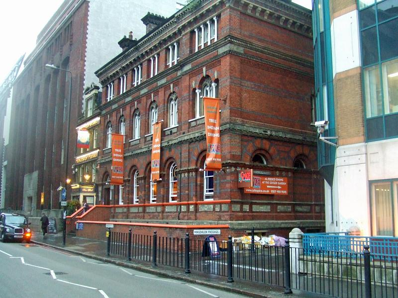 Restaurant Café Spice Namasté, 16 Prescot Street, London E1, seen from the west